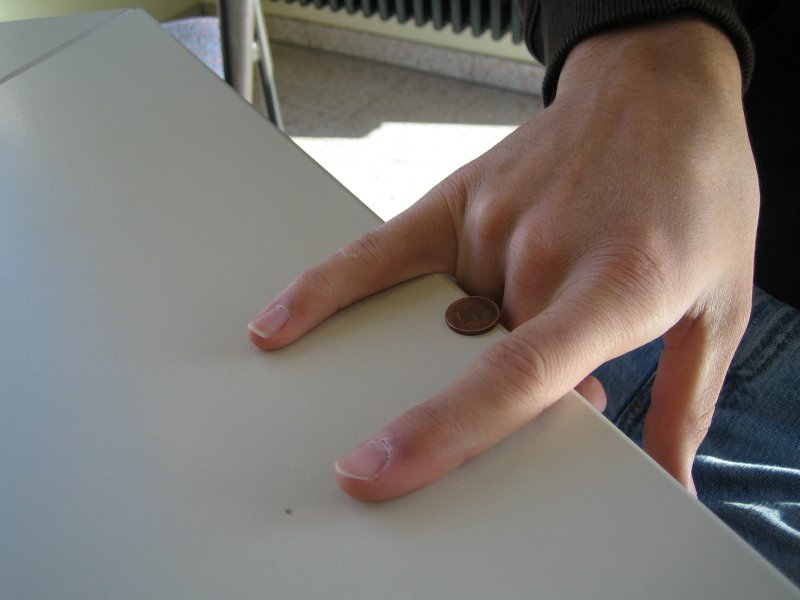 Correct goal during a pinning game.